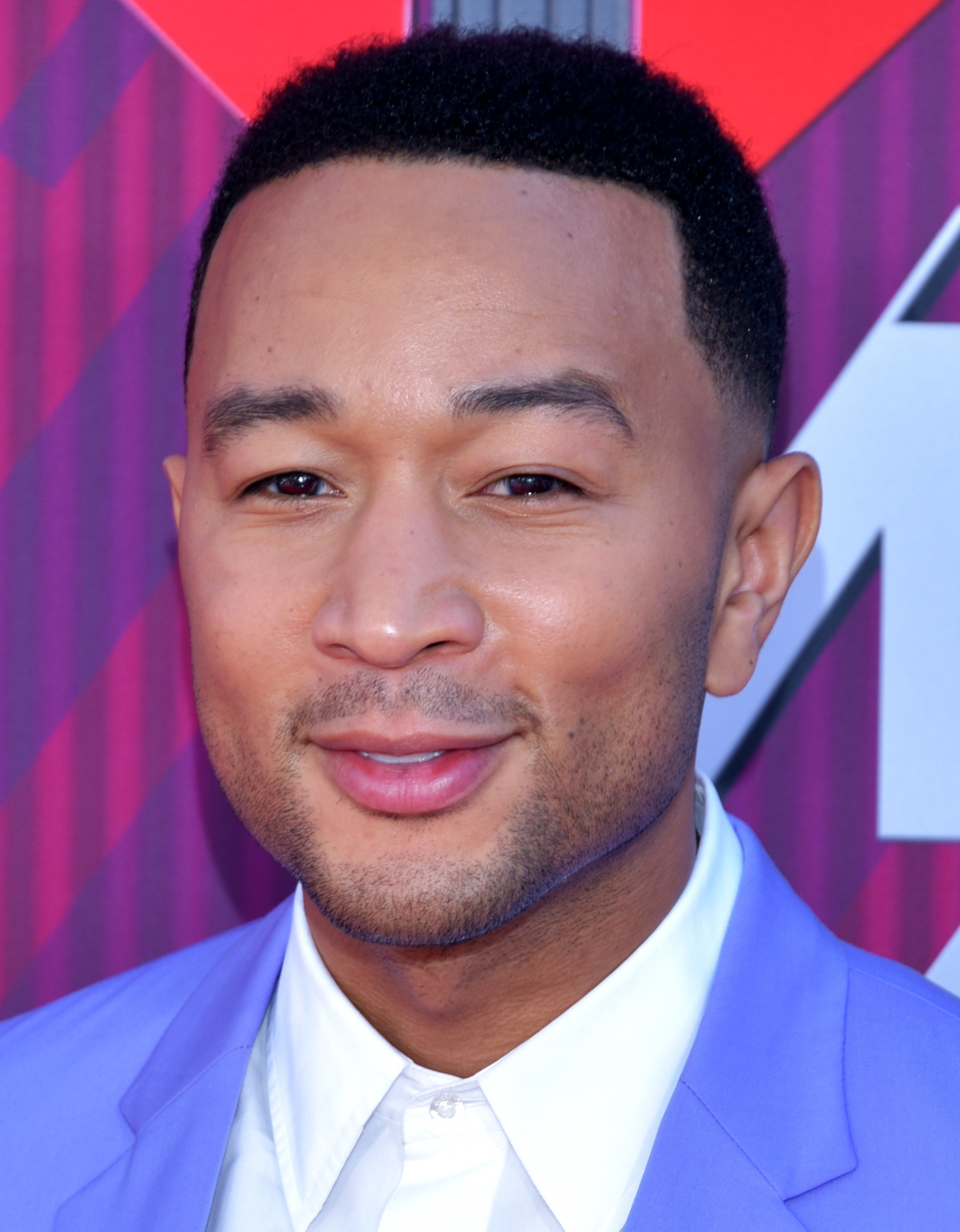 John Legend attends the iHeartRadio Music Awards in Los Angeles California on March 14, 2019 - Photo by Glenn Francis of